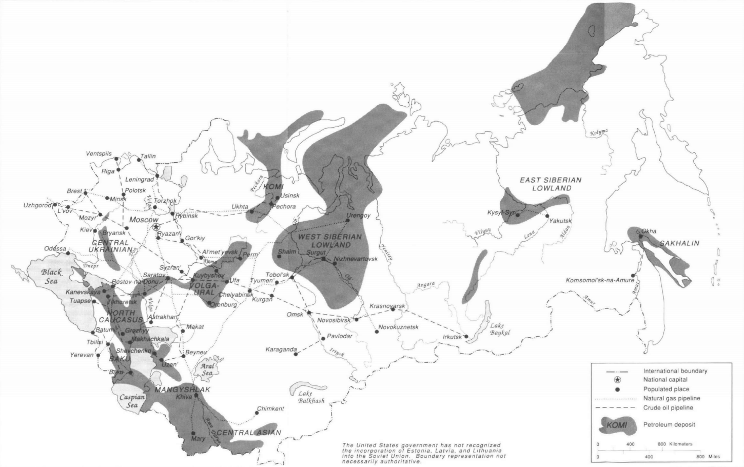 Major Soviet Petroleum Deposits and Pipelines, 1982.